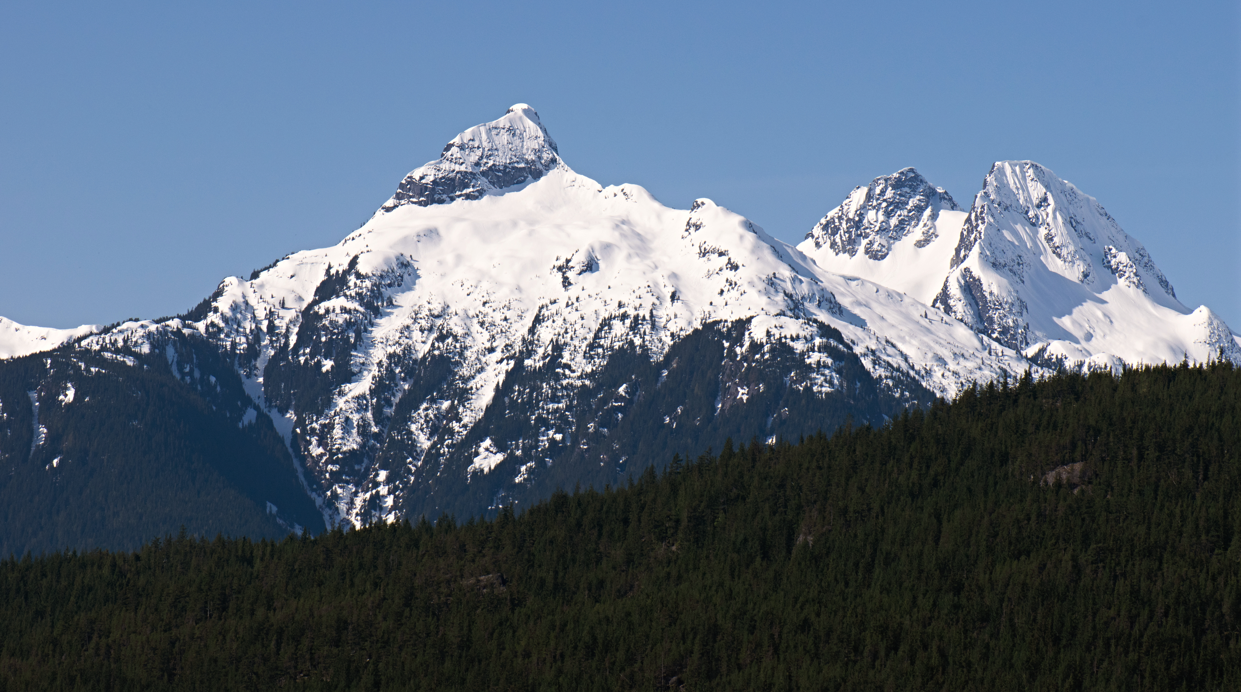 Omega, Pelops, Niobe in Tantalus Range of British Columbia, Canada, 2018